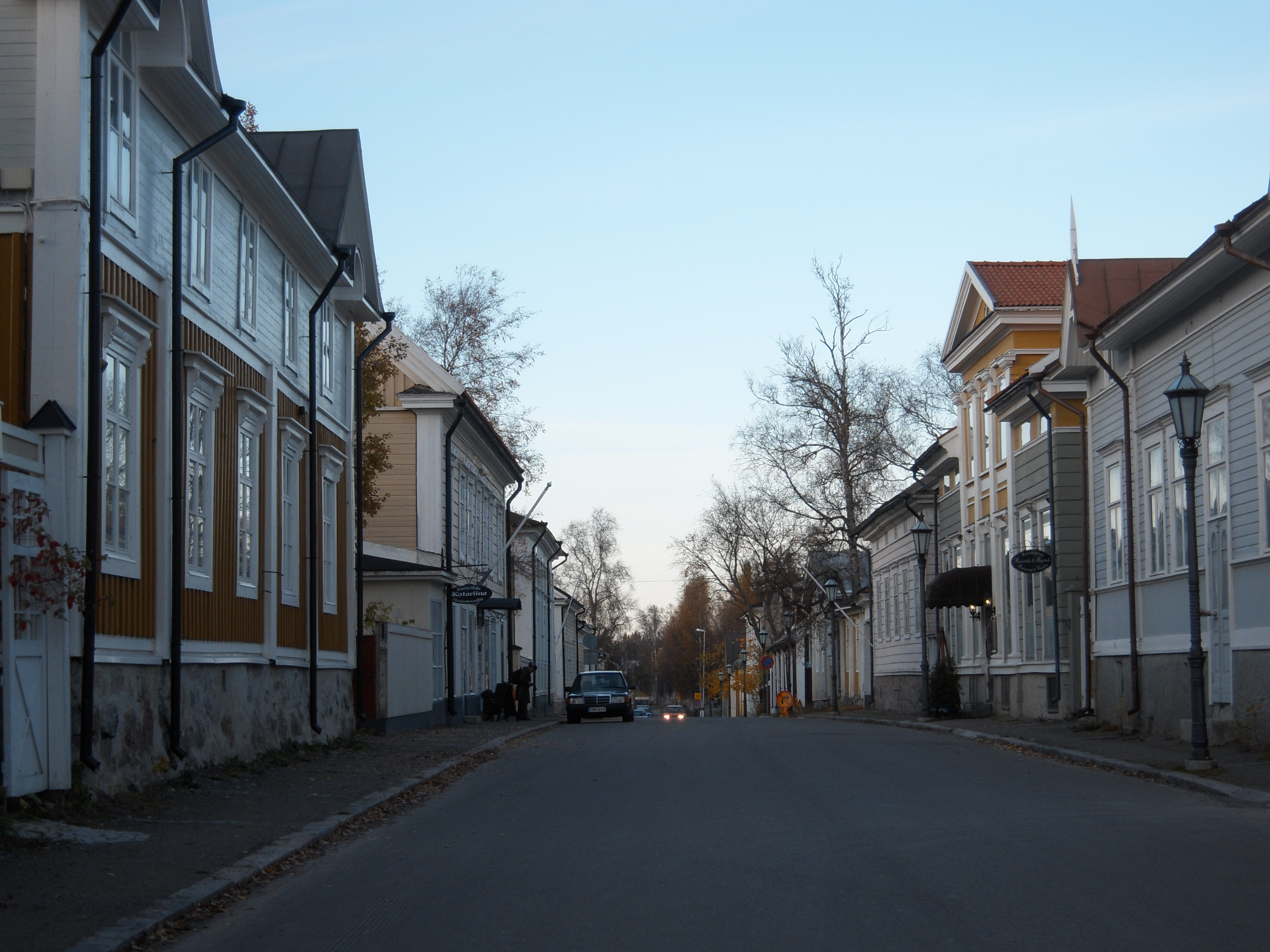 Part of the "Old Town" section in the city of Kokkola, Central Ostrobothnia, Finland.